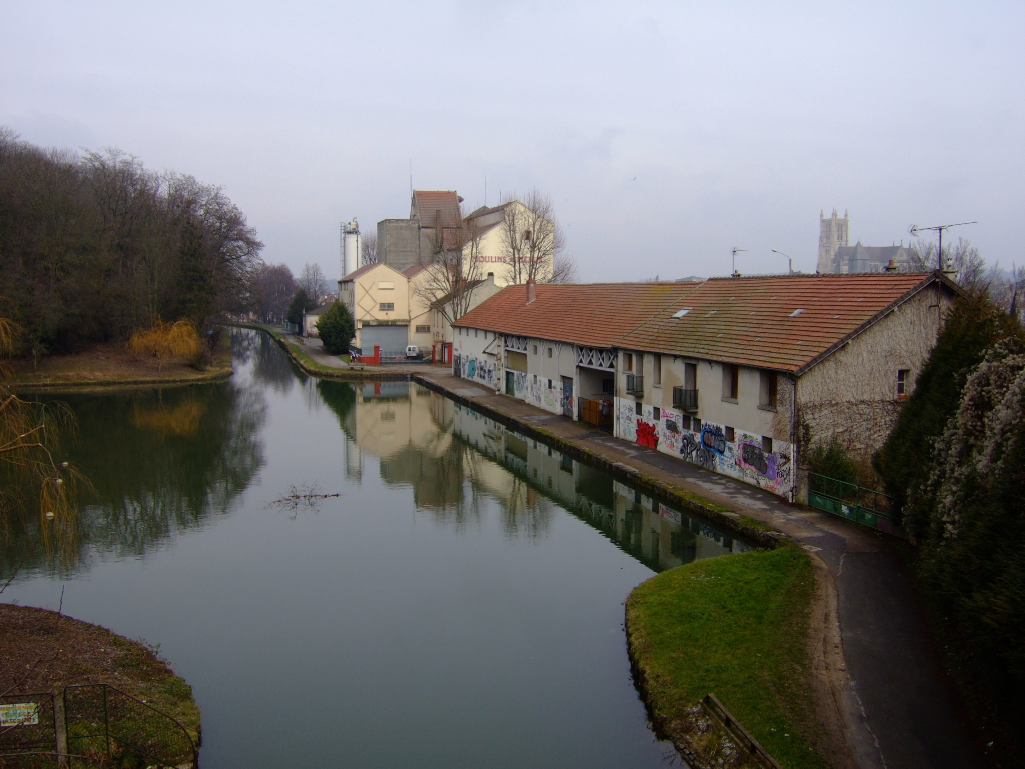 Old Ourcq canal dockside in Meaux, France.